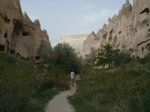 Author: Sergio Perez, taken April, 2001.